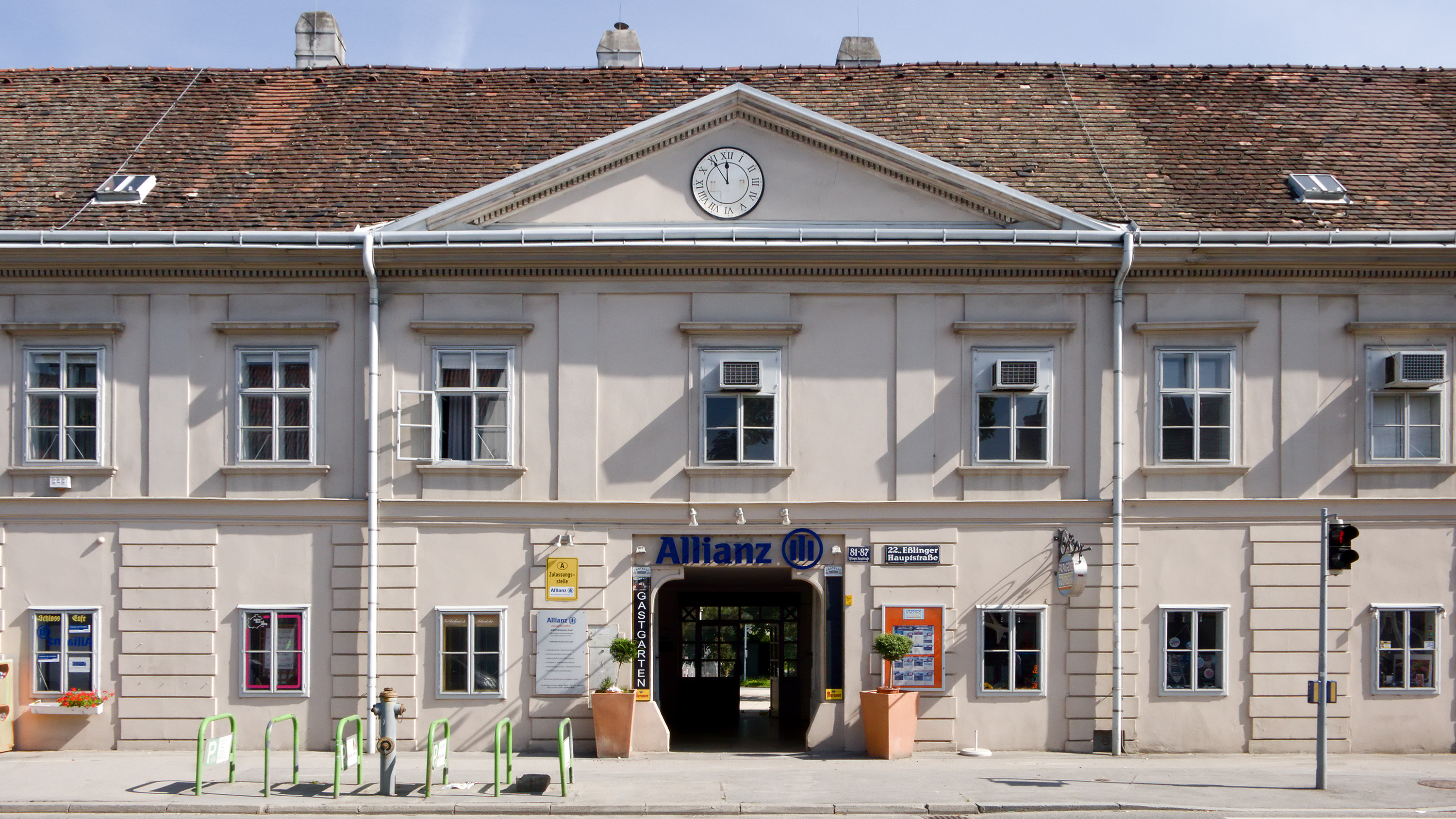 Palace Schloss Essling in Vienna Donaustadt